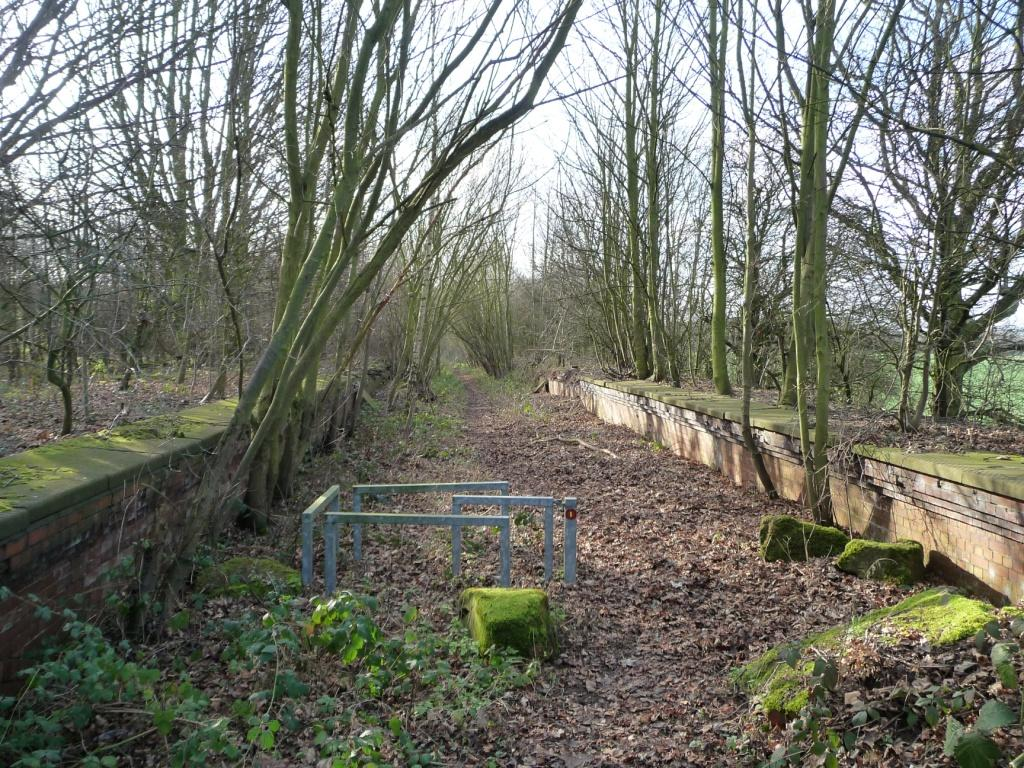 Platforms, Moorhouse & South Elmsall StationOpen to passengers 1902-1929. Once on the Wath branch of the Hull & Barnsley Railway, now on the Frickley Railway Path.